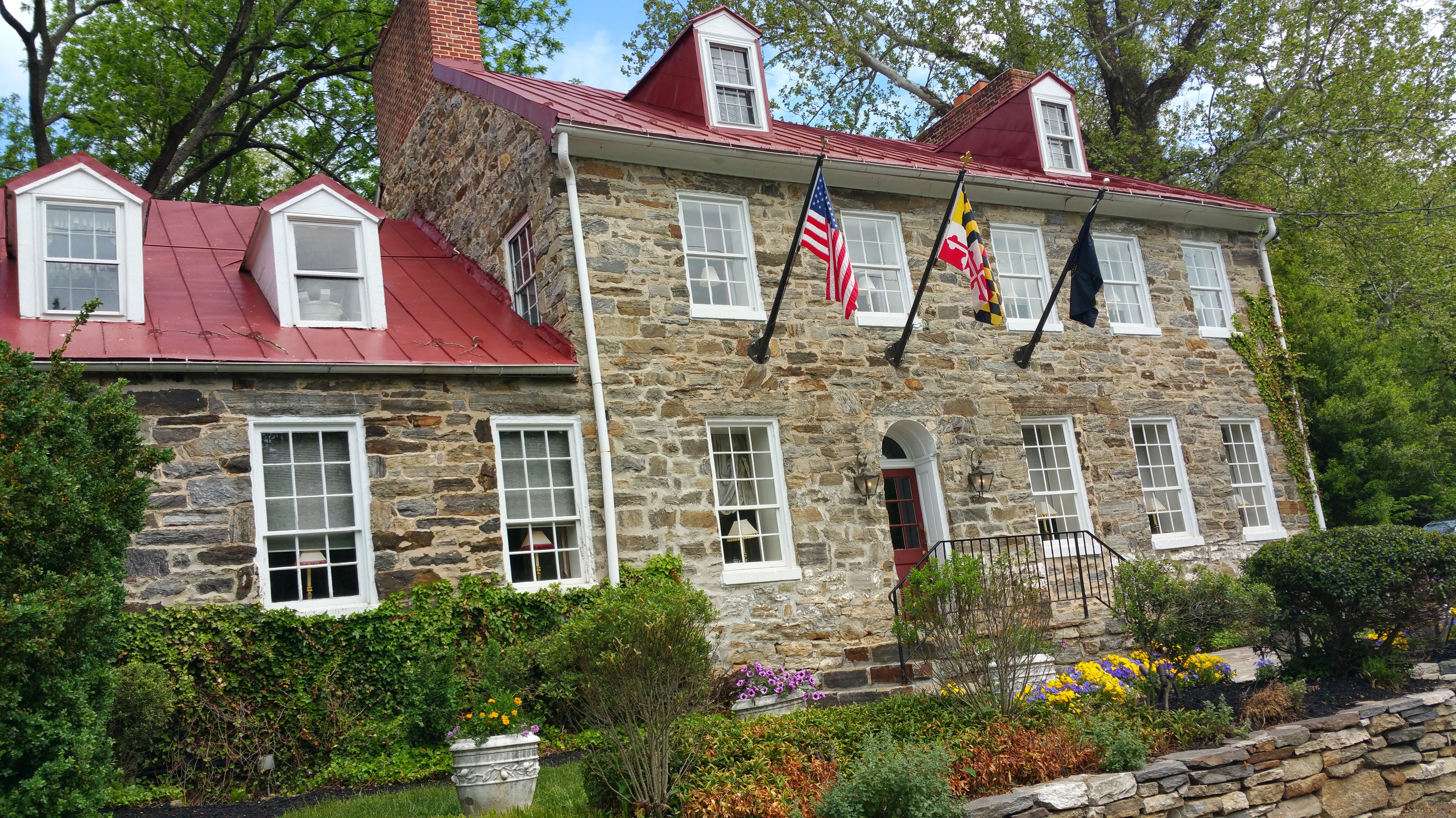 Historic Milton Inn in Sparks, Maryland